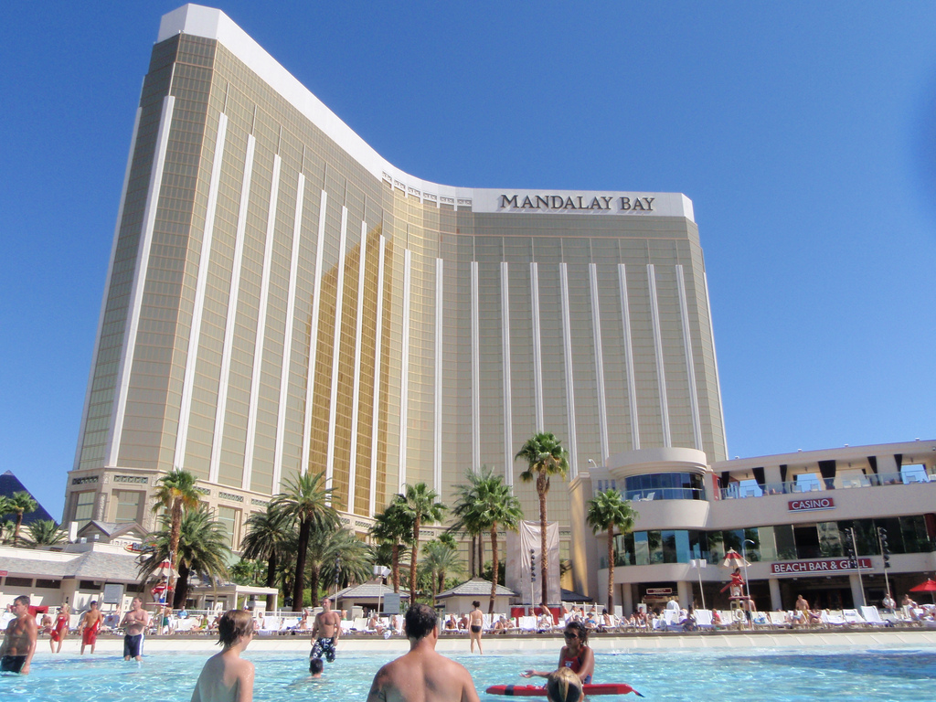 Mandalay Bay Hotel, Las Vegas